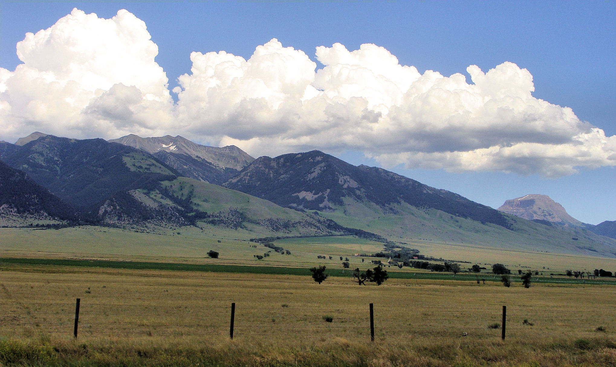 Hilgard Peak appears as a sharp horn in between the two black mountains.